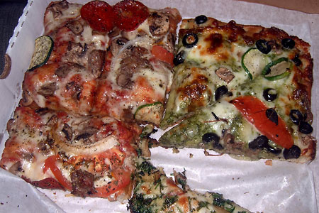 Combo, pesto veggie and clam garlic pizza slices. Watermark removed using the GIMP resynthesizer plugin.